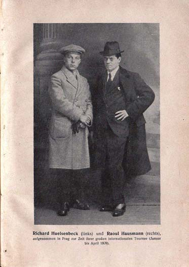 Richard Huelsenbeck (left) and Raoul Hausmann (right) in Prague during their January to April Dada Tour in 1920. From the German edition of "Dada Almanach" (1920). Photographer unknown.